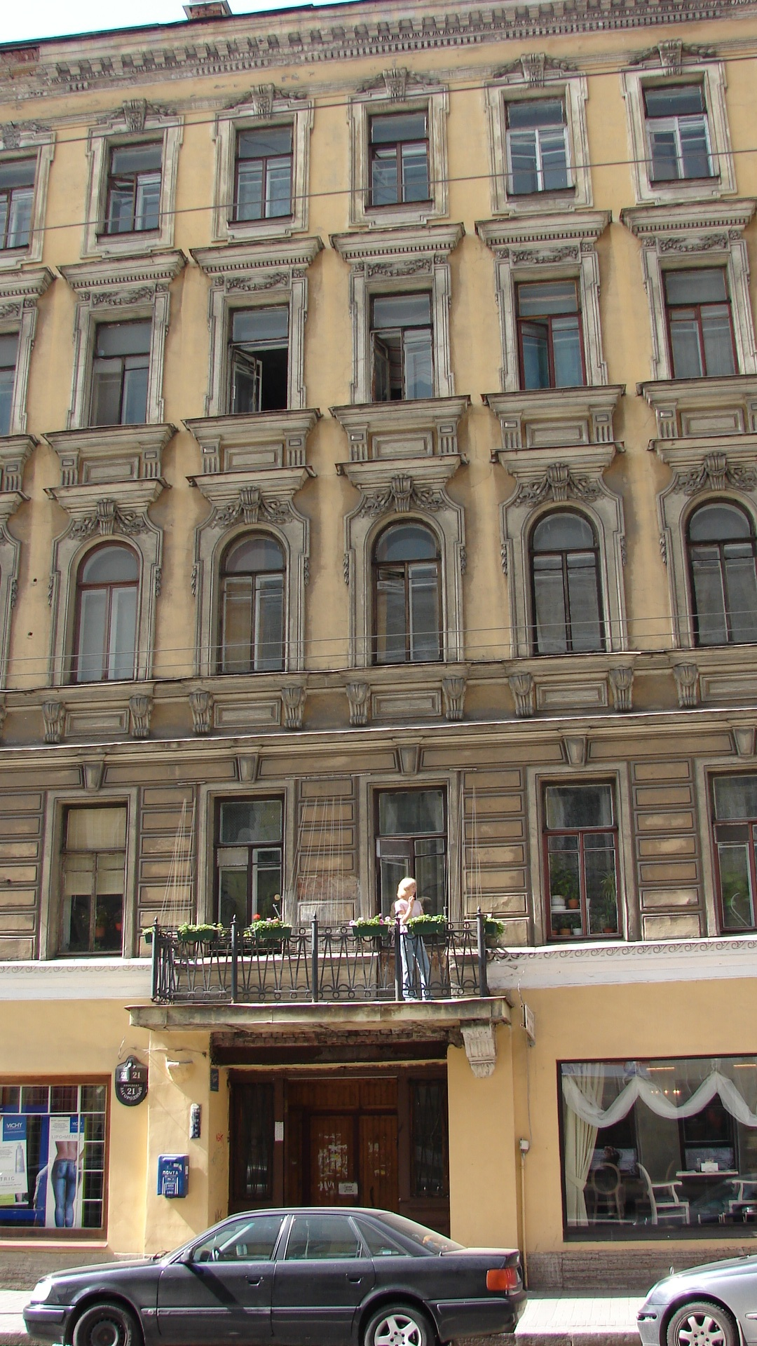 Zagorodny prospekt, 21